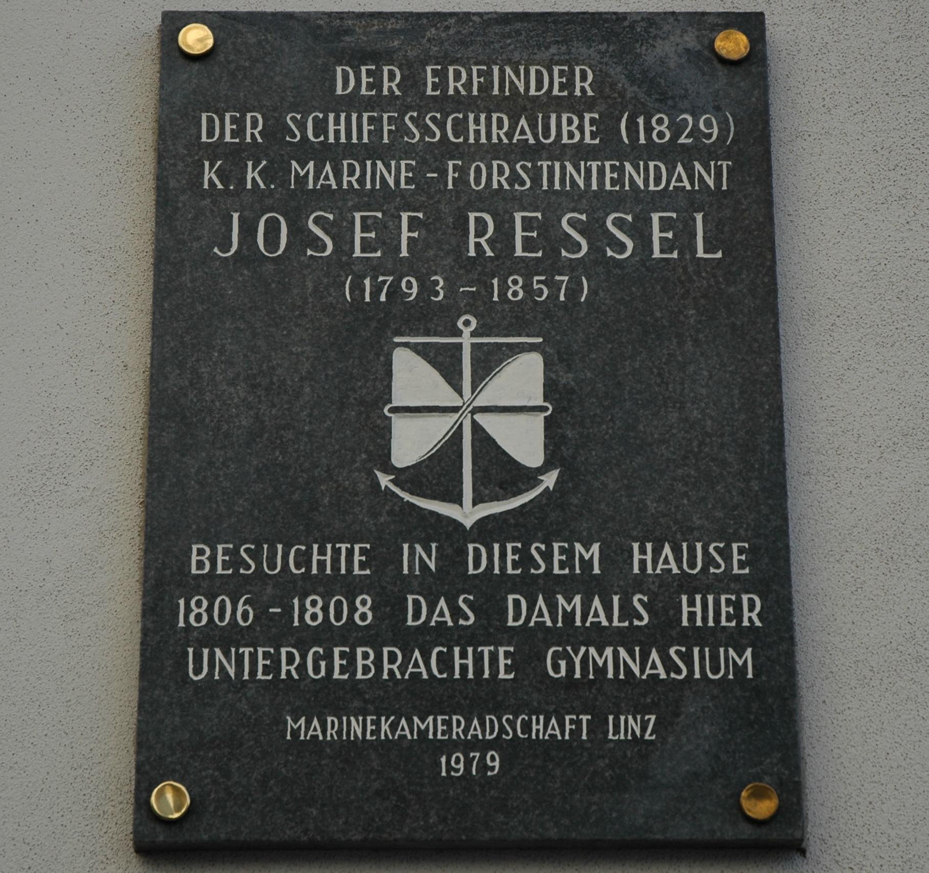 Gedenktafel an Josef Ressel in Linz (am Pfarrplatz) / Josef Ressel-memoriam tablet at the building of a former secondary school he visited in Linz (at the Pfarrplatz)